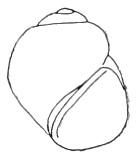 Drawing of apertural view of the shell of Pyrgulopsis neomexicana.